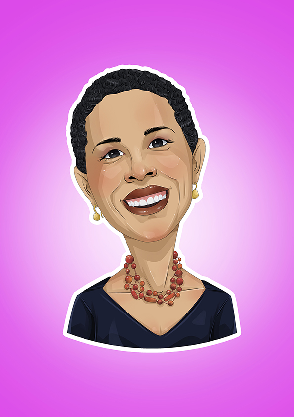 Illustration of Graphic Designer Sylvia Harris